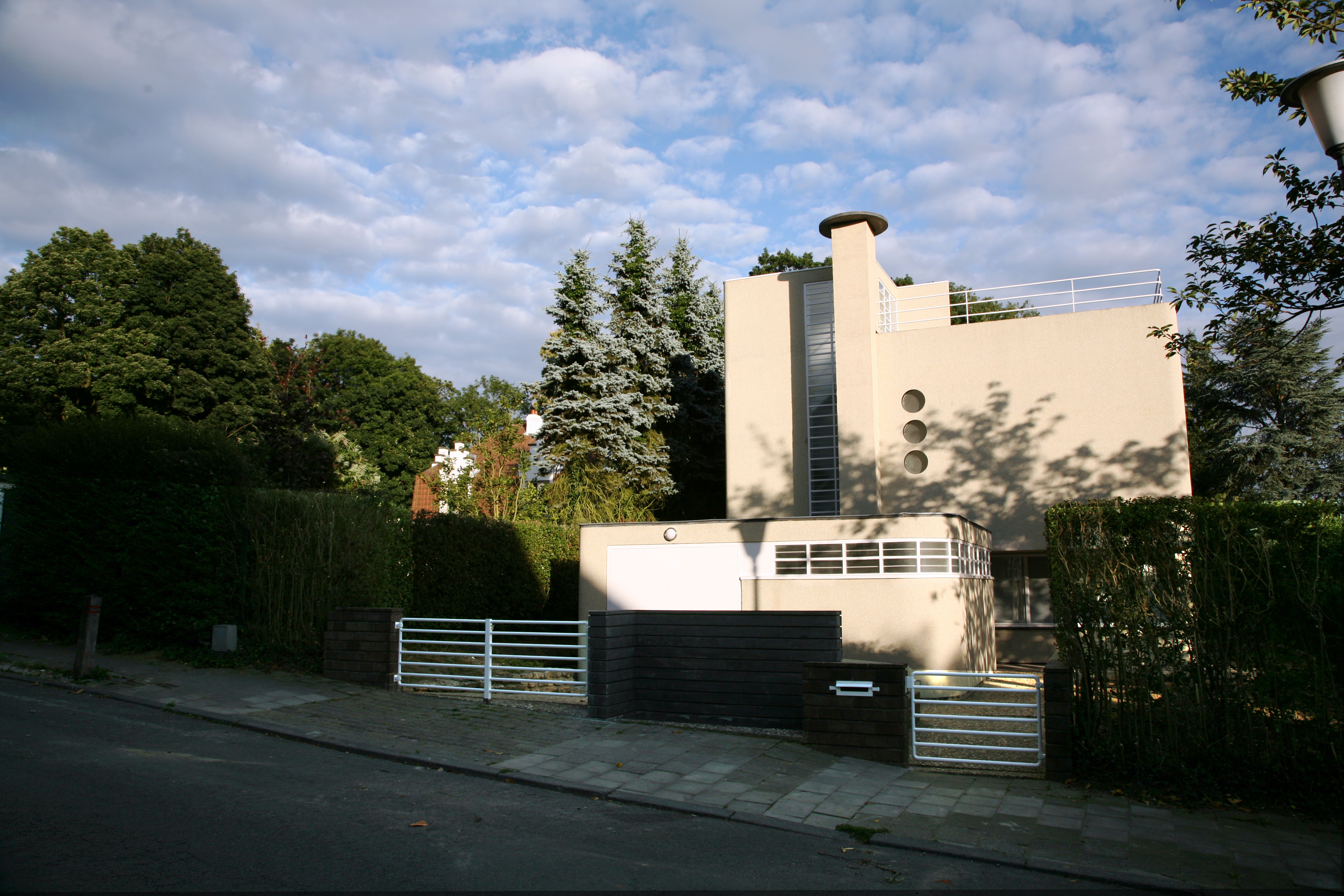 Berteaux House was realised in Brussels, in 1936 by the famous belgian architect Louis-Herman DE KONINCK (just renovated in 2008). It's a good exemple of steamliner architecture in the modern movement.